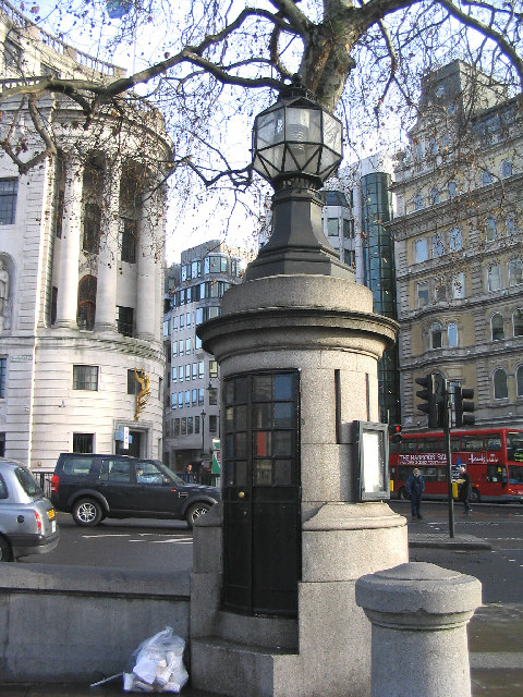 London's smallest police station! Located in the south east corner of Trafalgar Square is what was the smallest police station in London. Built inside a lamp post, it was capable of holding one policeman and was mainly used as a lookout post during demonstrations (pre 1960), with a direct line to Scotland Yard. Now it is mainly used by cleaners to store their equipment.